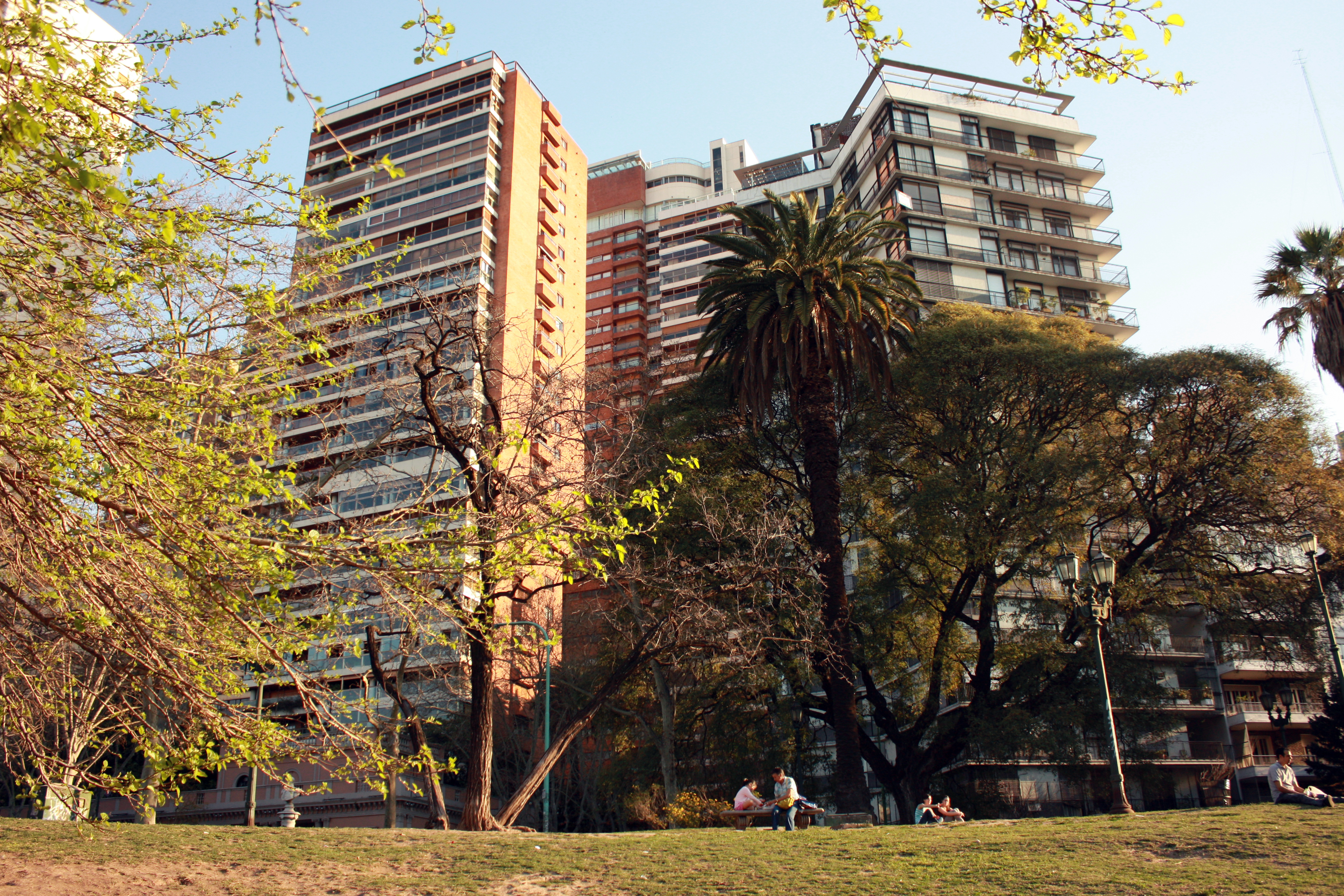 Apartment high-rises in the Barrancas de Belgrano section of Buenos Aires. Las Barrancas Tower (Aisenson, 1985-88) is at left.